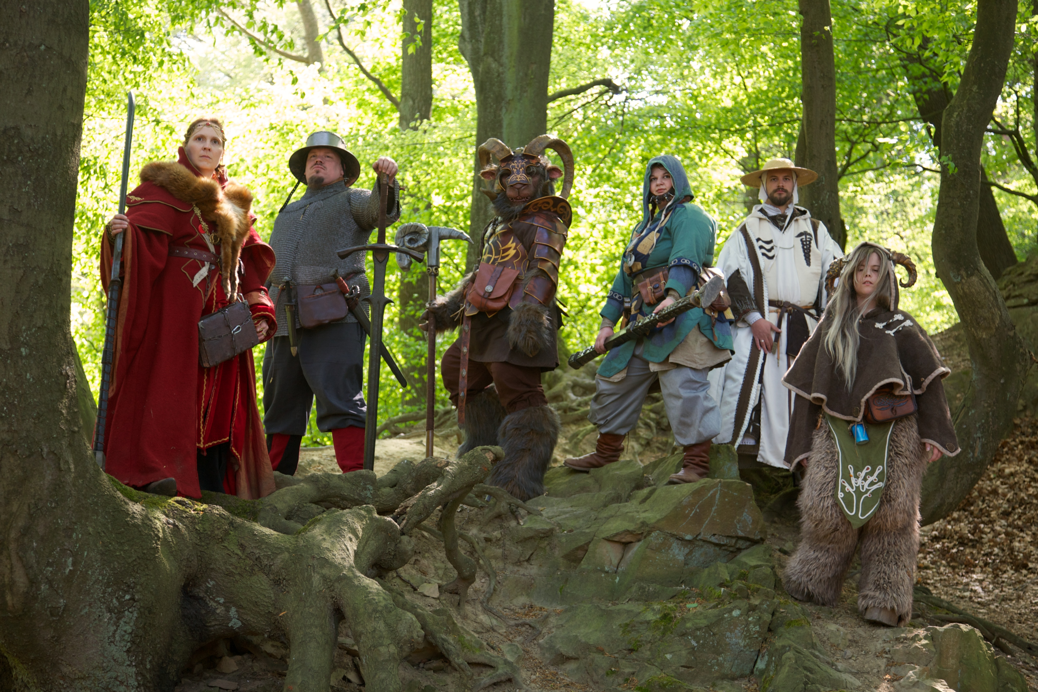 Fantasy Live Role Playing Characters, Hardenstein 2014